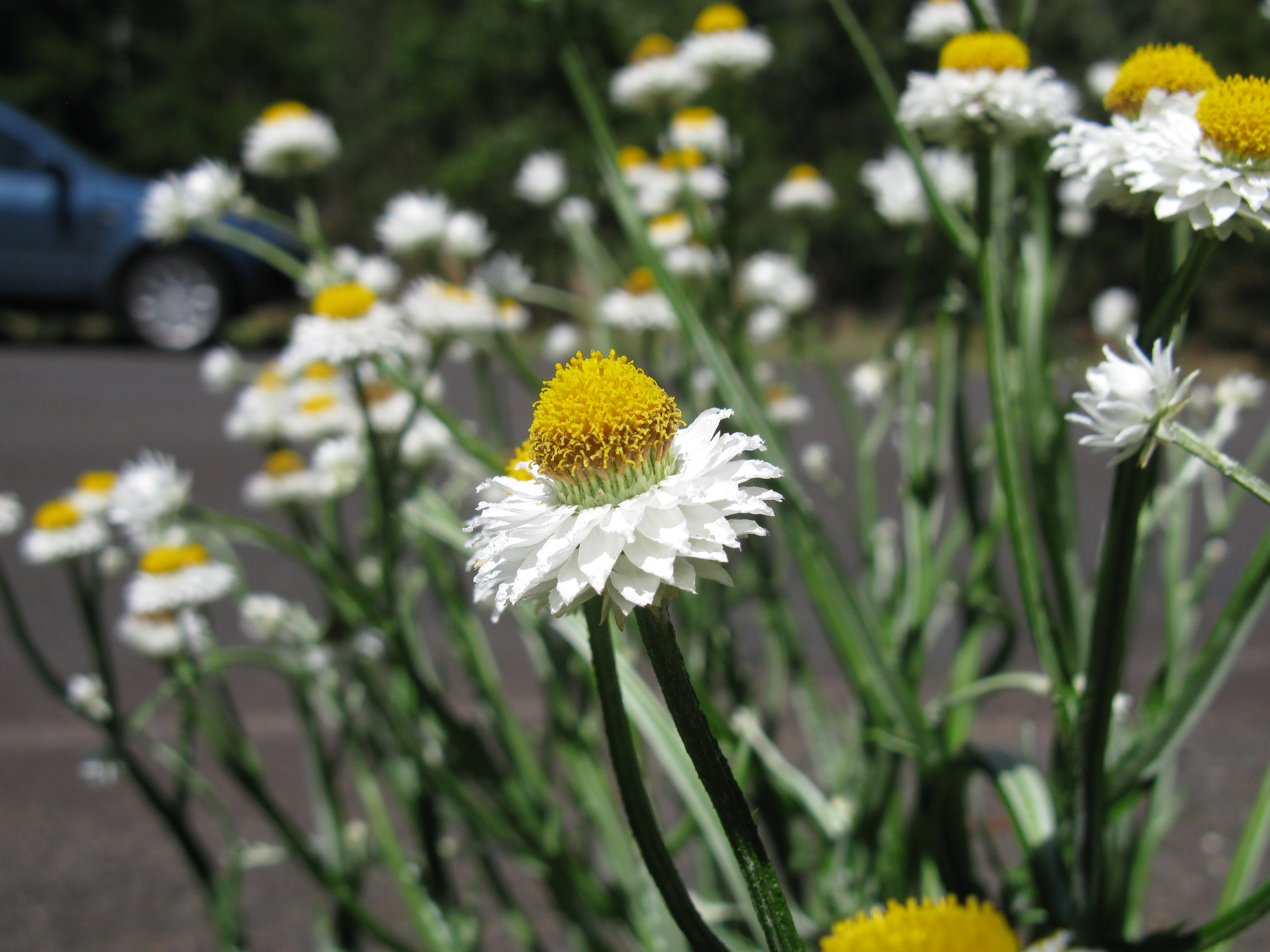 Native, warm season, perennial or facultative annual herb, 60–100 cm tall. Stems are usually much-branched, winged and woolly. Lamina of rosette leaves are narrow-ovate to ± hastate, mostly 4–6 cm long, with both surfaces ± woolly; petiole is 7–10 cm long and winged. Cauline leaves are few, bract-like and sessile. Heads have an involucral of bracts which are white and papery, with margins jagged. Florets are tubular and yellow, becoming darker with age. Flowering is in summer. Grows in grassland and woodland, sometimes covering extensive areas, common on roadsides; widespread.